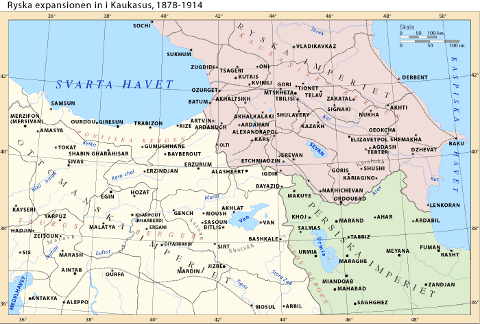 Armenian Provinces, 1878-1914